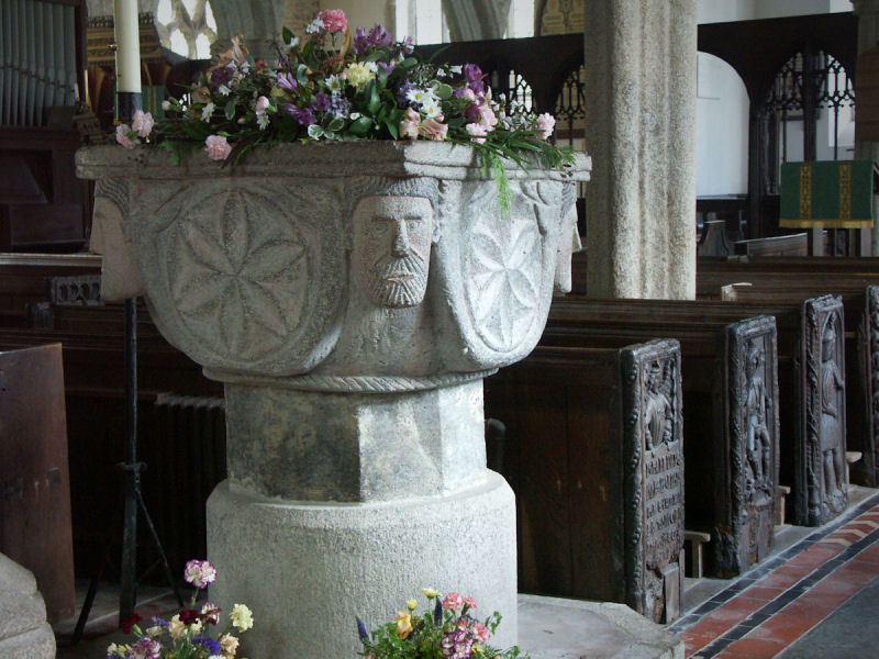 Norman font in St Nonna's parish church, Altarnun, Cornwall, England